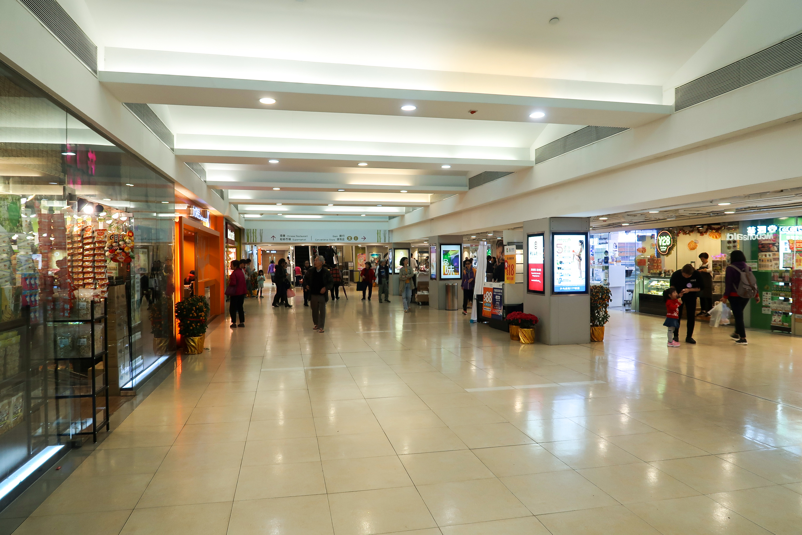 Sha Kok Commercial Centre